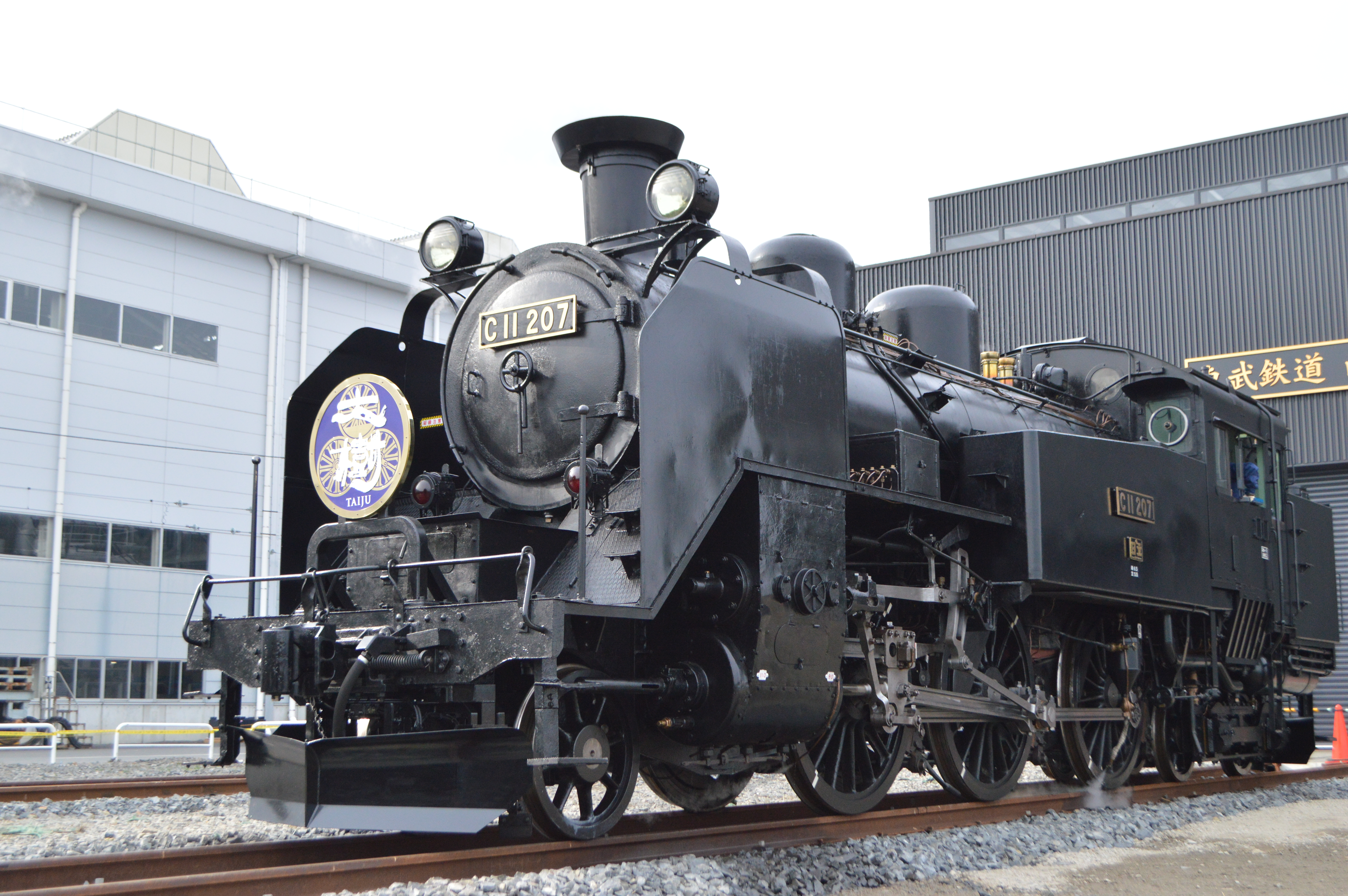 Class C11 steam locomotive C11 207 at Minami-Kurihashi Depot open day